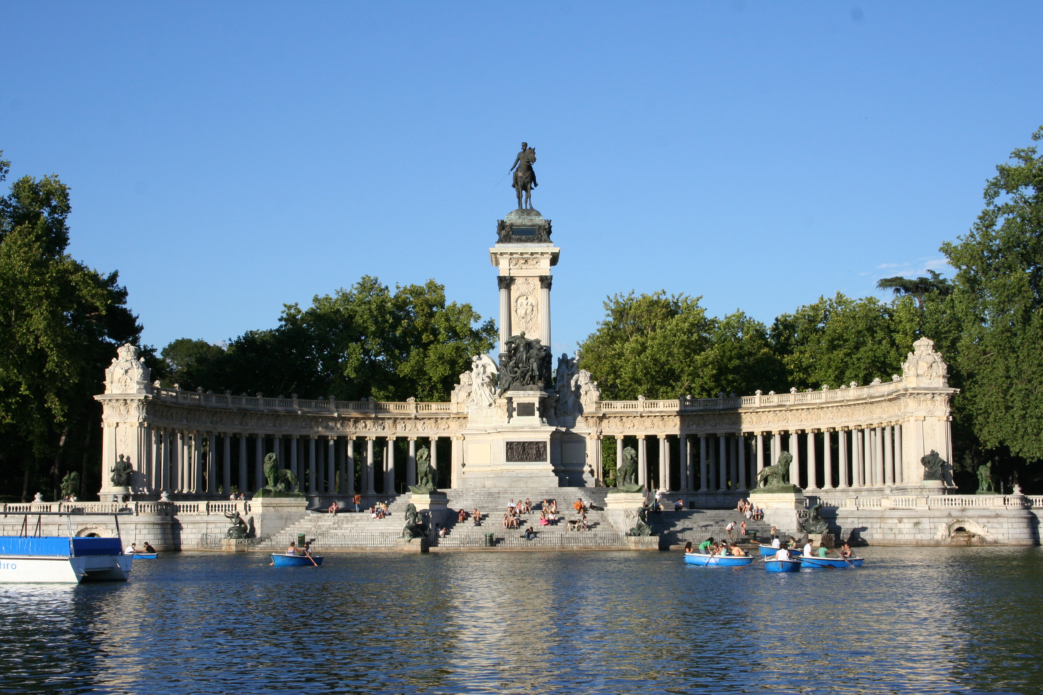 Monument to Alfonso XII, El Retiro, Madrid.